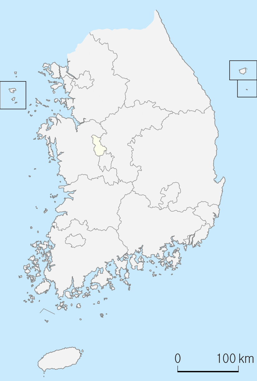 Map of Sejong Special Autonomous City Highlighted